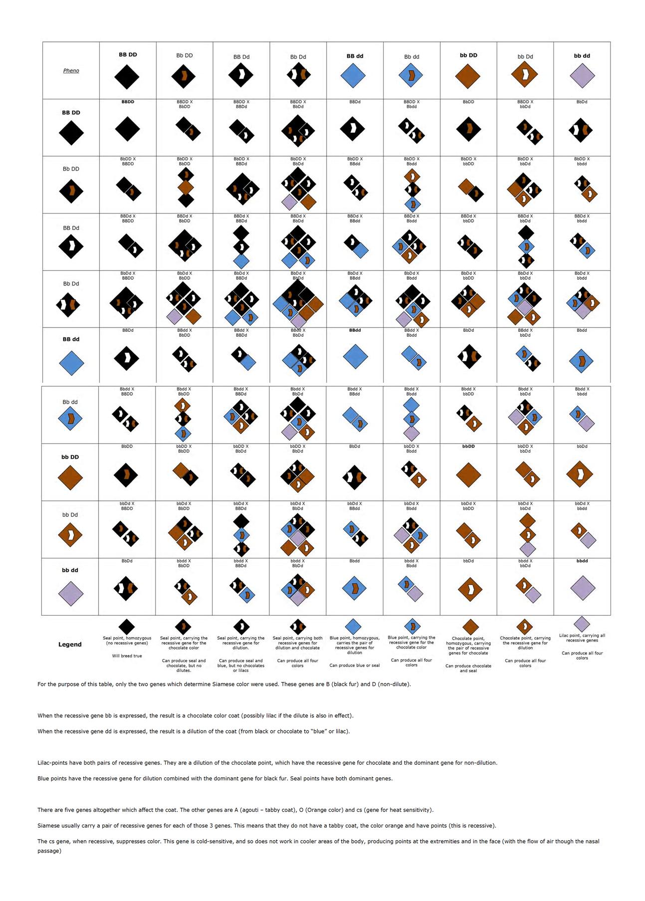 A chart on the crosses of the four CFA approved points of siamese cats - Blue point, seal point, chocolate point and lilac point. Note - must see this page as full resolution!